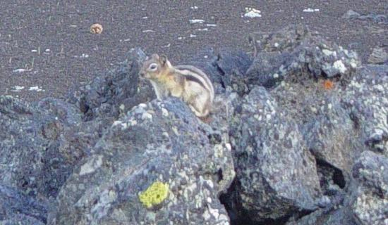 Marmot at Devil's Orchard in Craters of the Moon NM.